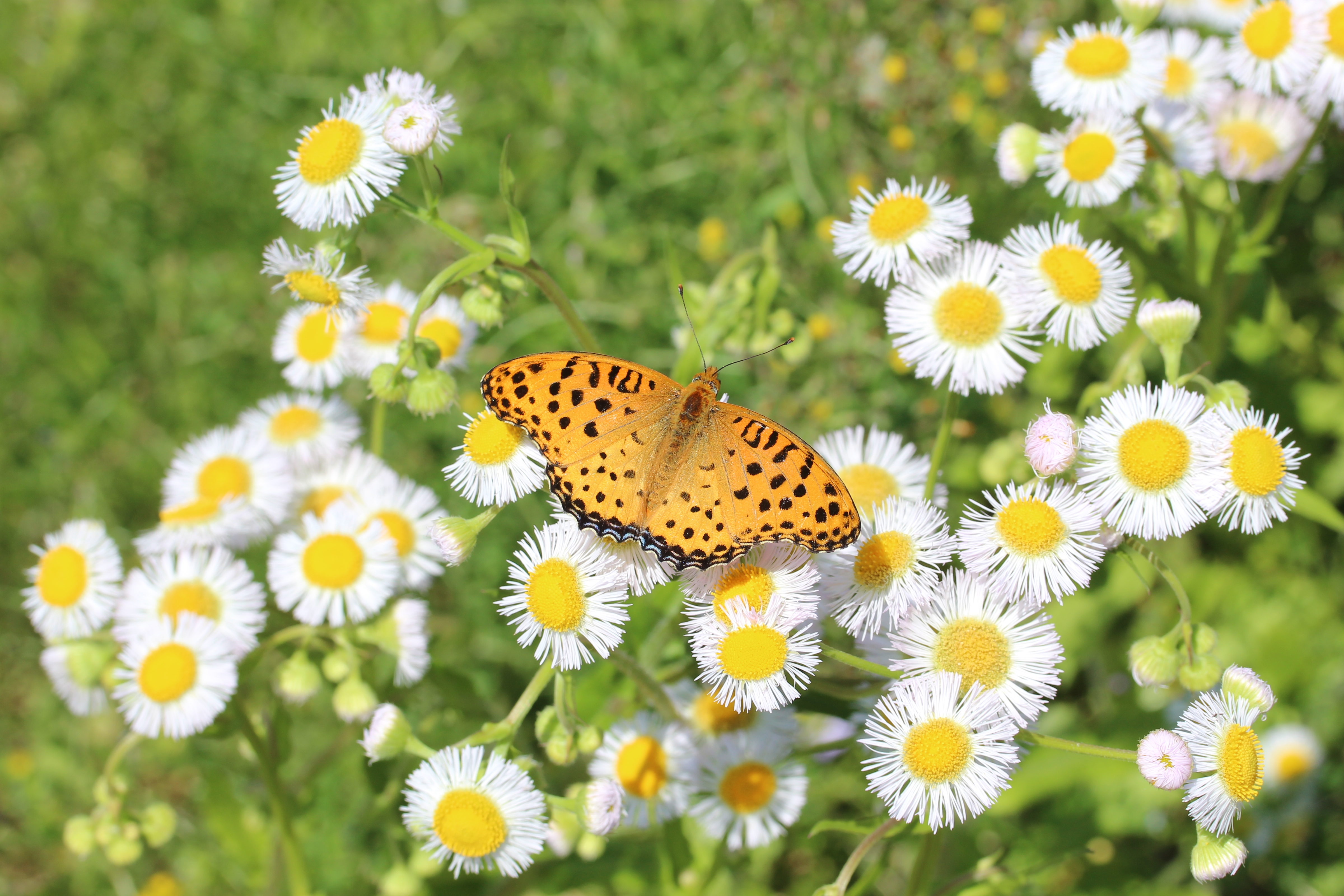 Argynnis hyperbius feeding nectar of Erigeron philadelphicus, in Aichi prefecture, Japan